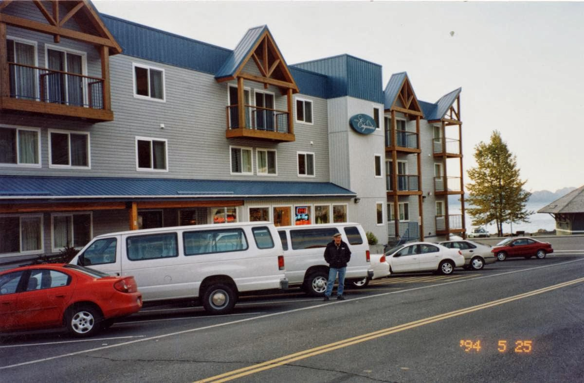 Hotel in Seward